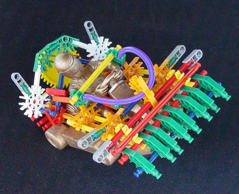 Own photograph, taken August 2005. Source